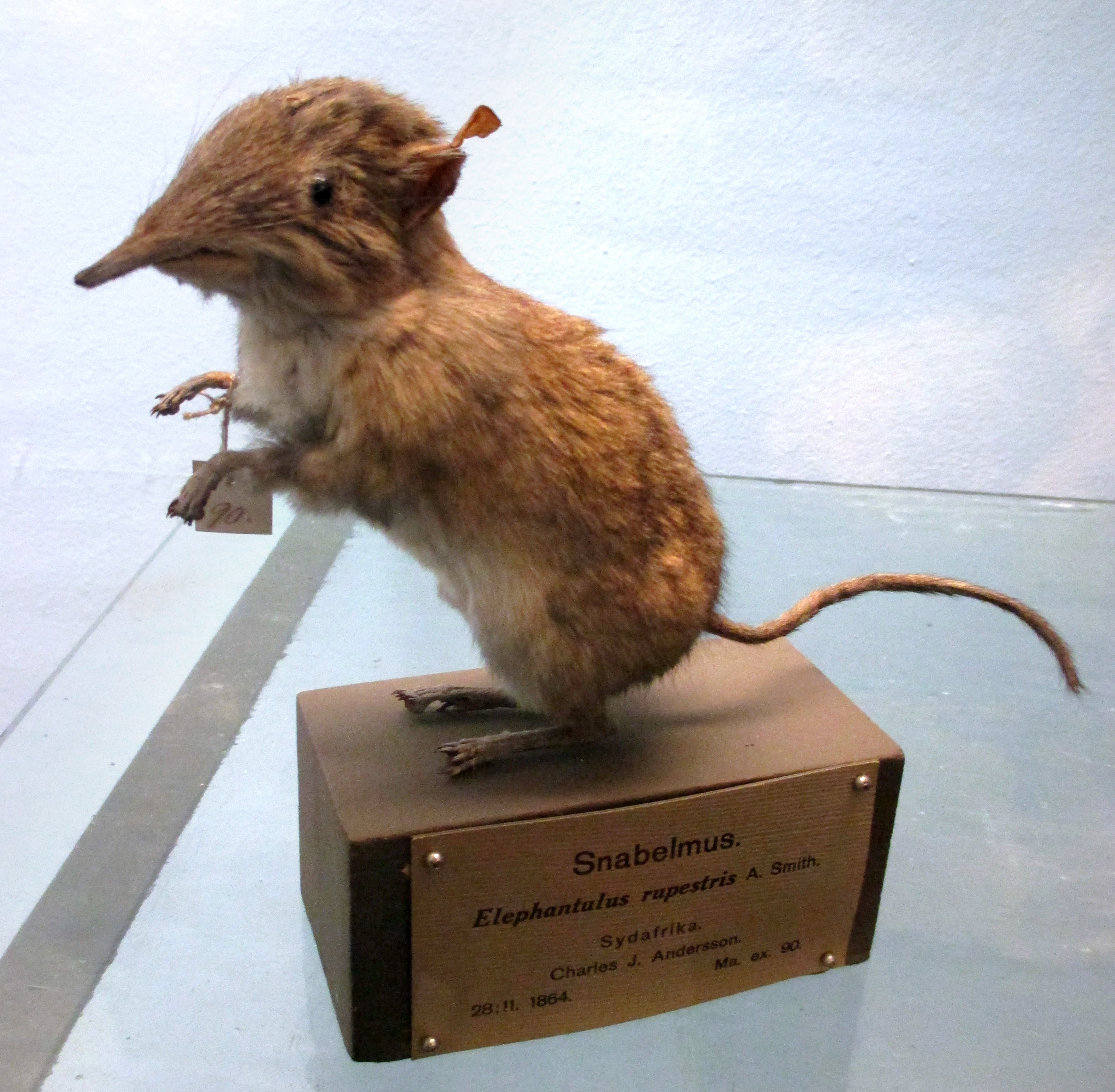 A western rock elephant shrew or western rock sengi (Elephantulus rupestris) from South Africa at Göteborgs Naturhistoriska Museum, Gothenburg, Sweden